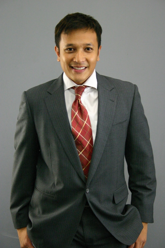 Nazril Idrus, Malaysia